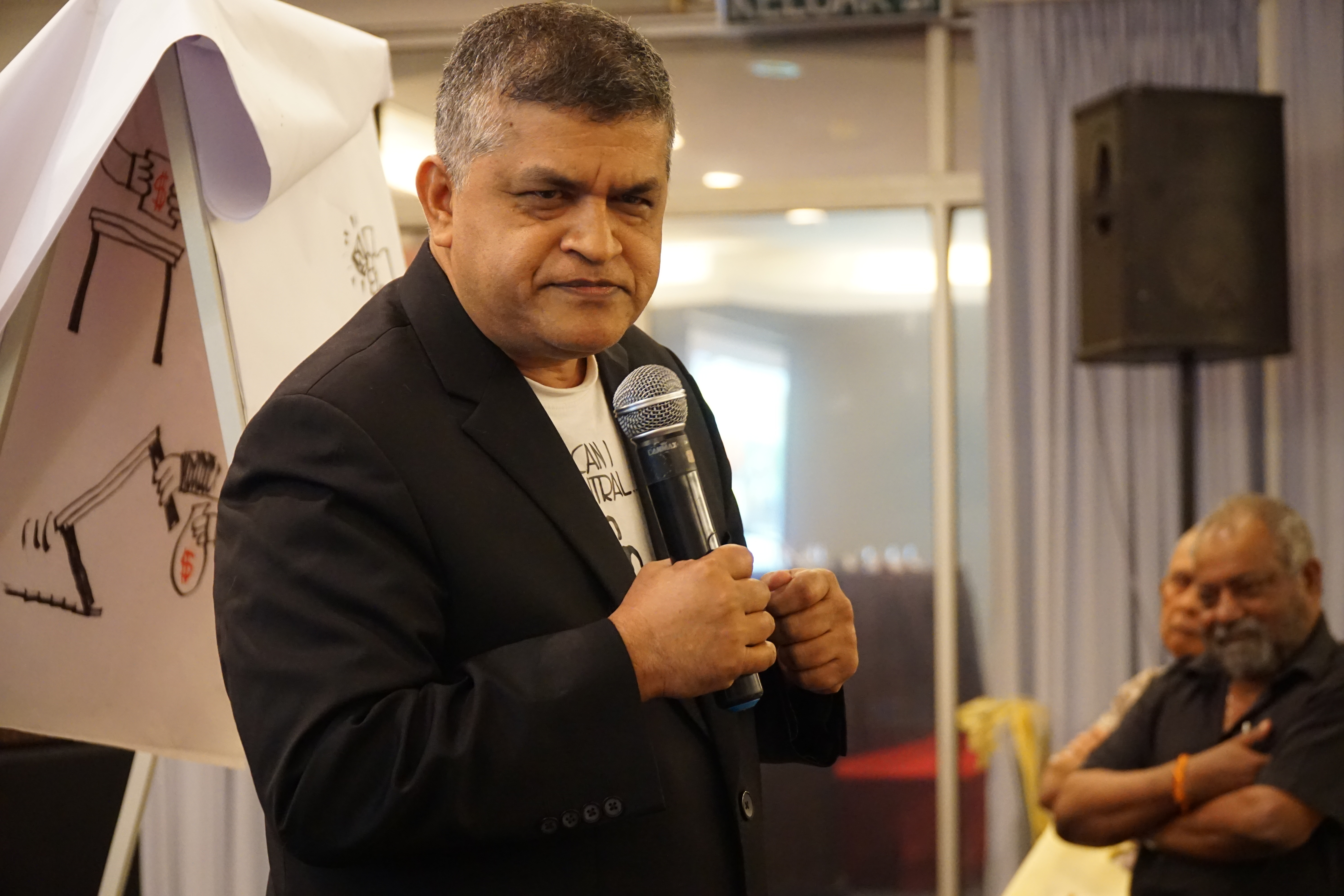 Zulkiflee Anwar Haque speaking at an event forum titled "Kleptocrazy Malaysia: Declare Your Assets Now!"